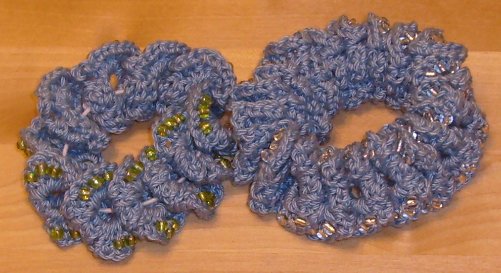 Two hair scrunchies made from bead crochet: size 3 mercerized cotton crochet thread, glass beads, and elastic. Stitches used: chain stitch and double crochet, with shell stitch edging. Original design.